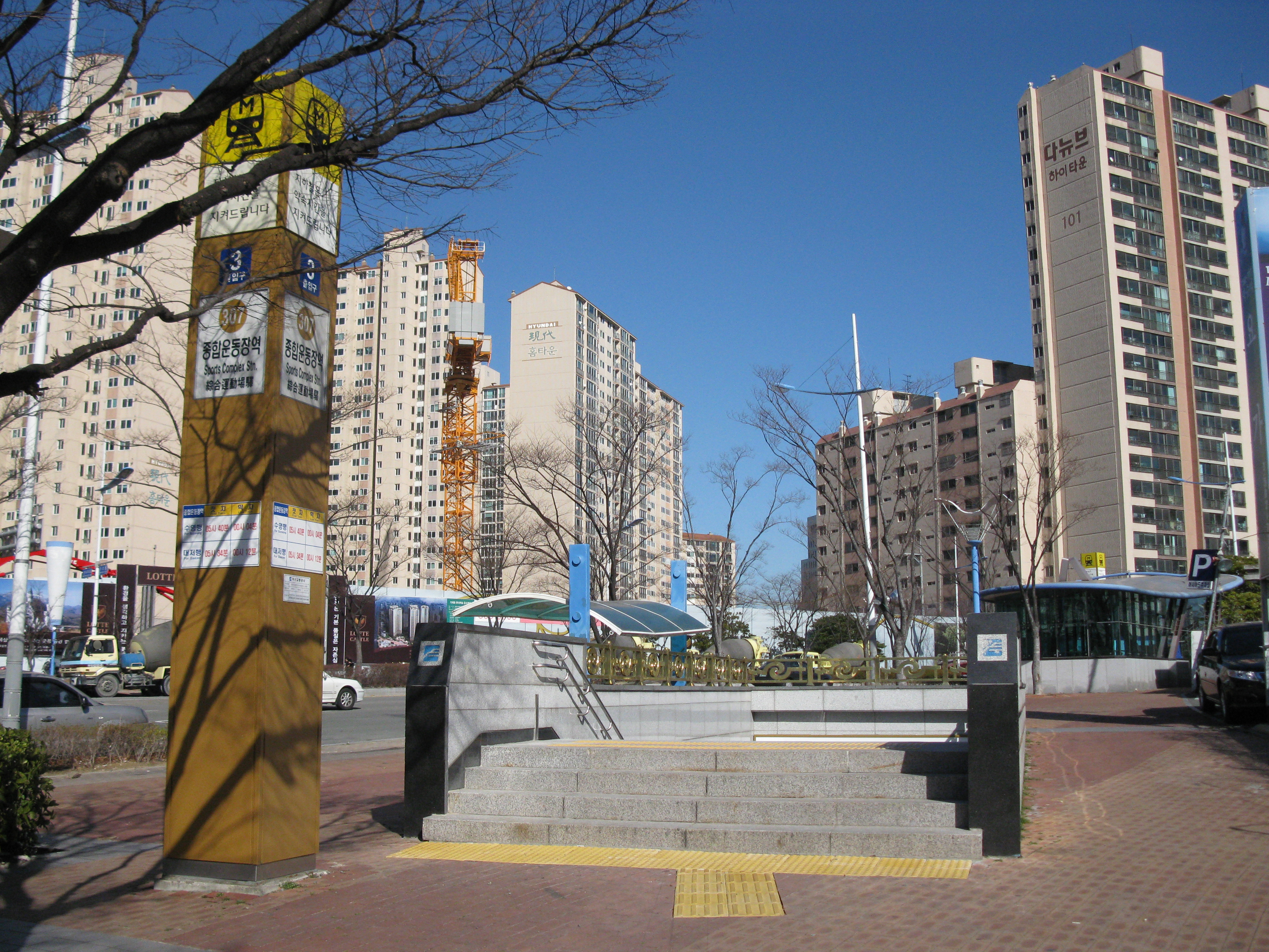 Sports Complex Station no.3 entrance (Busan Subway Line 3)